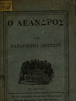 The first modern greek novel - Leandros - by Panagiotis Soutsos